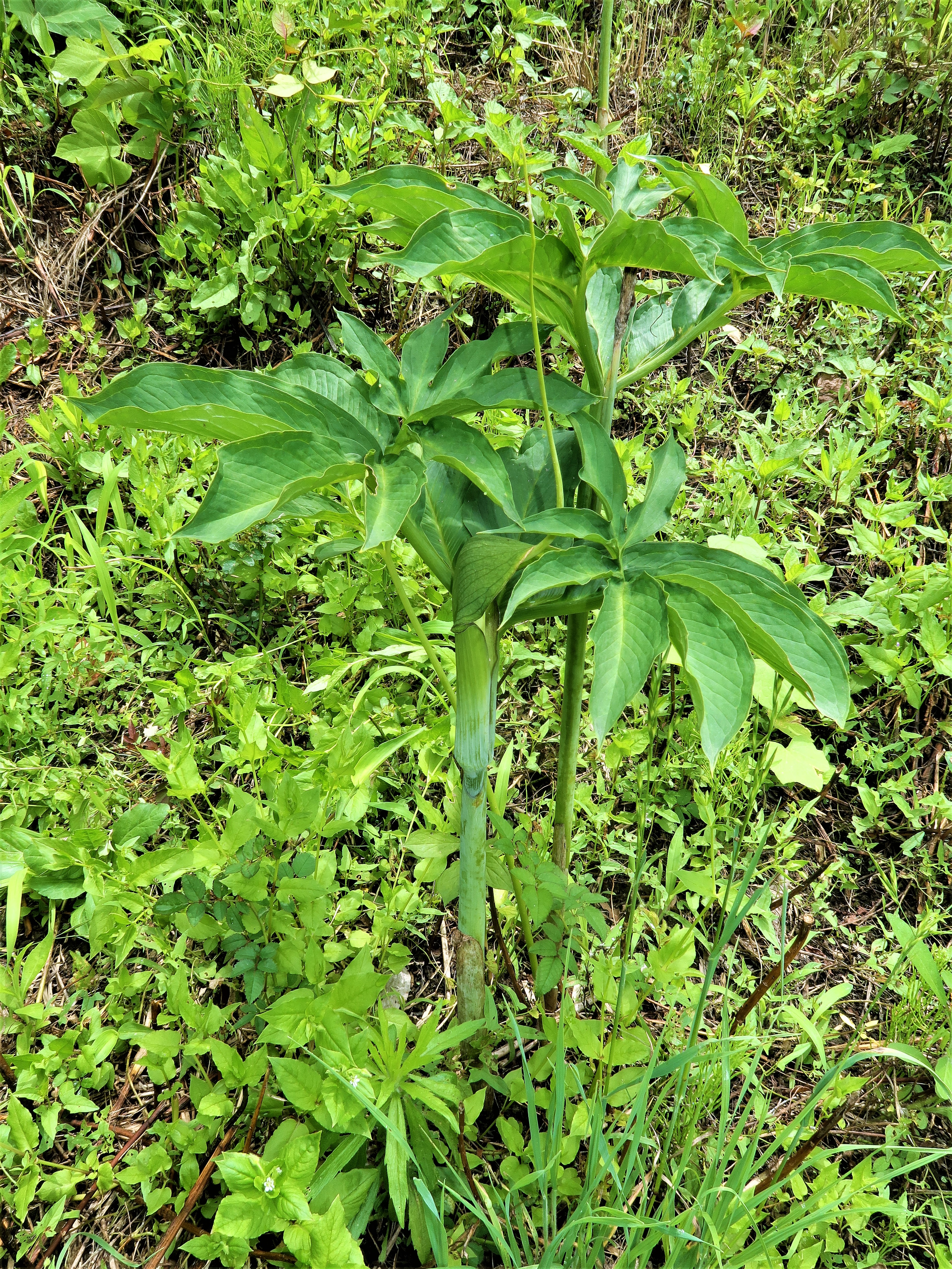 Arisaema heterophyllum , Watarase-yusuichi, Tochigi pref., Japan